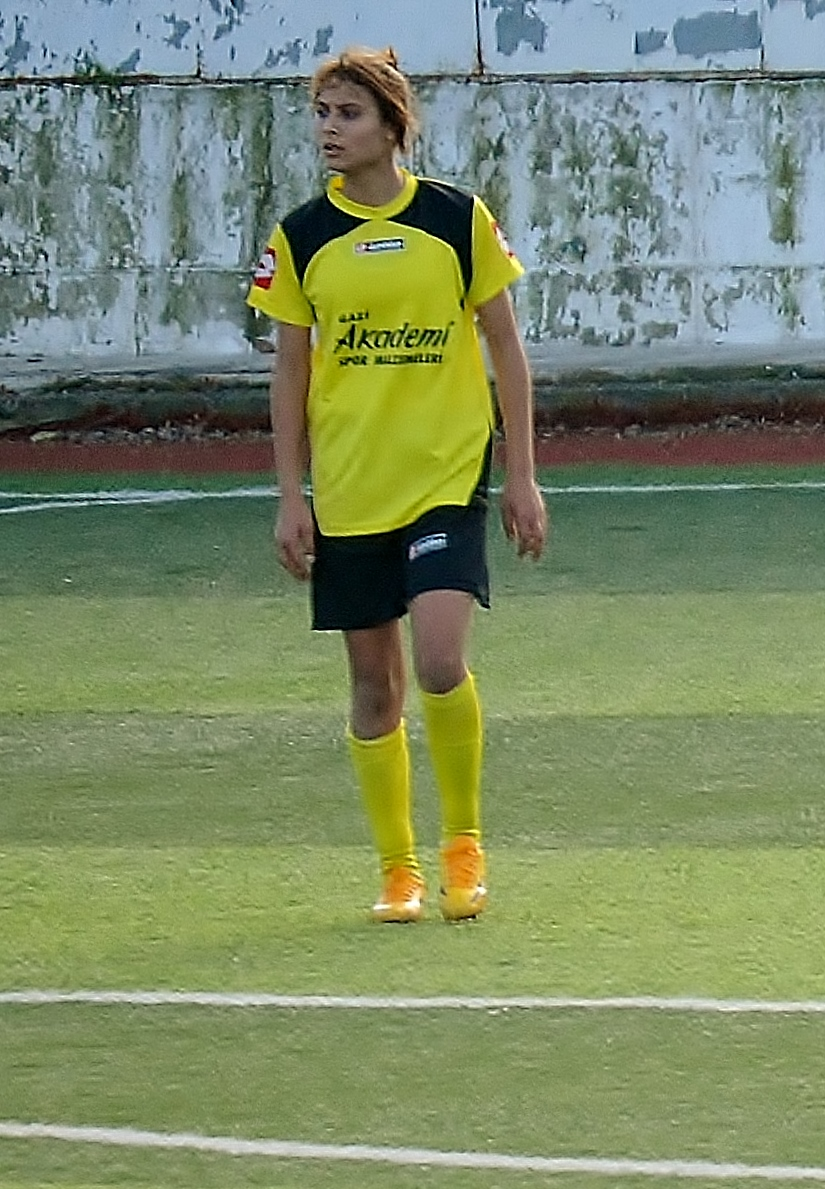 Demet Kılınç playing for Gazikentspor in the 2014-15 season.